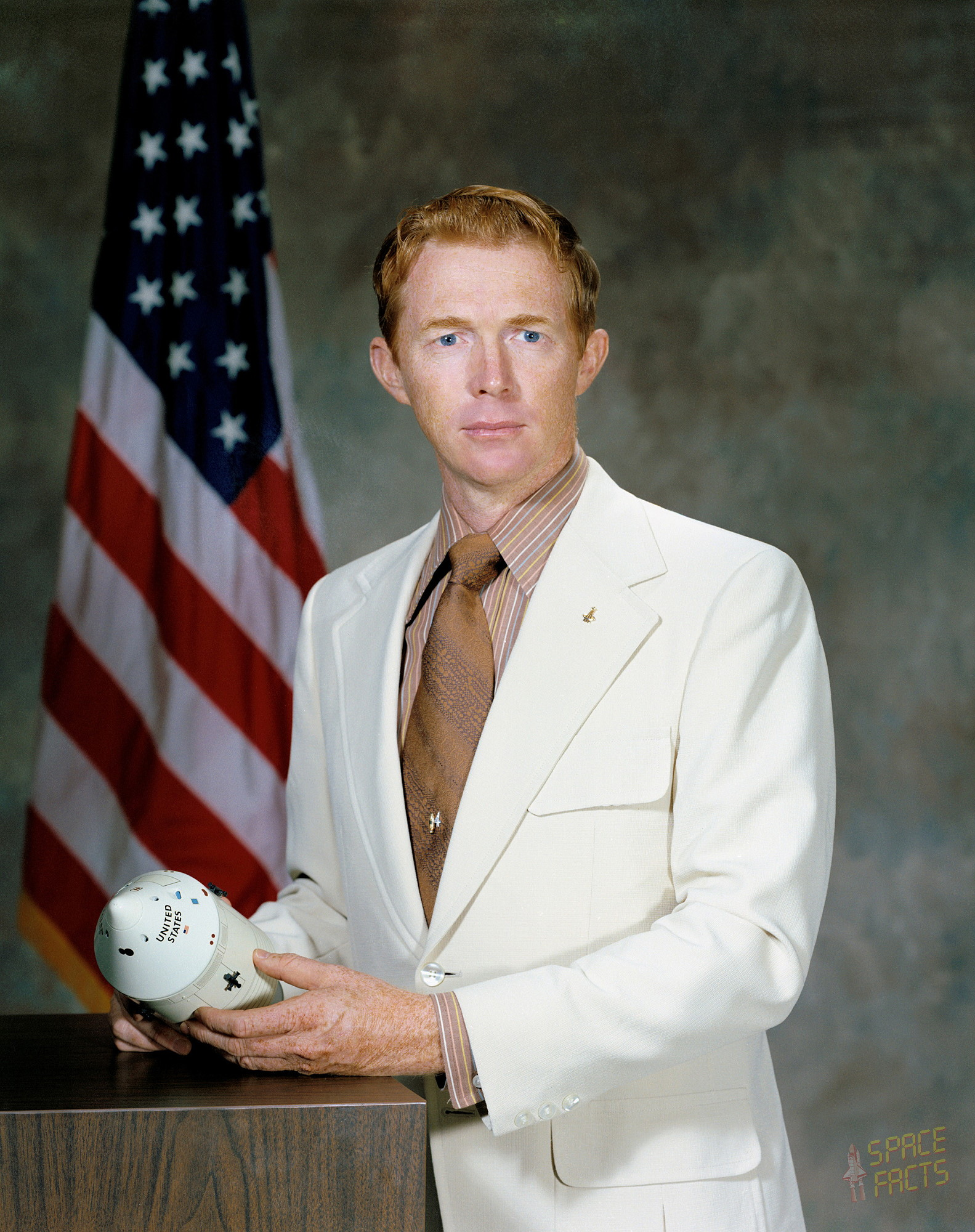 Portrait of NASA astronaut and Apollo 14 Command Module Pilot (CMP) Stuart Allen Roosa. NASA photo S71-59427 in public domain.